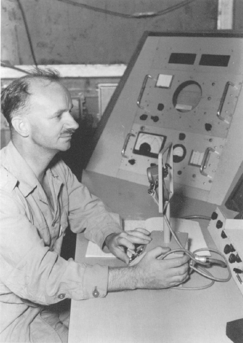 Ieaun Maddock at the control desk on Hermite Island for Operation Mosaic